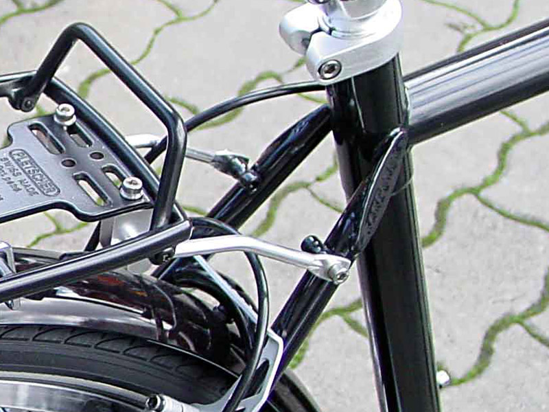 Detail of the mounting points of a bicycle rack